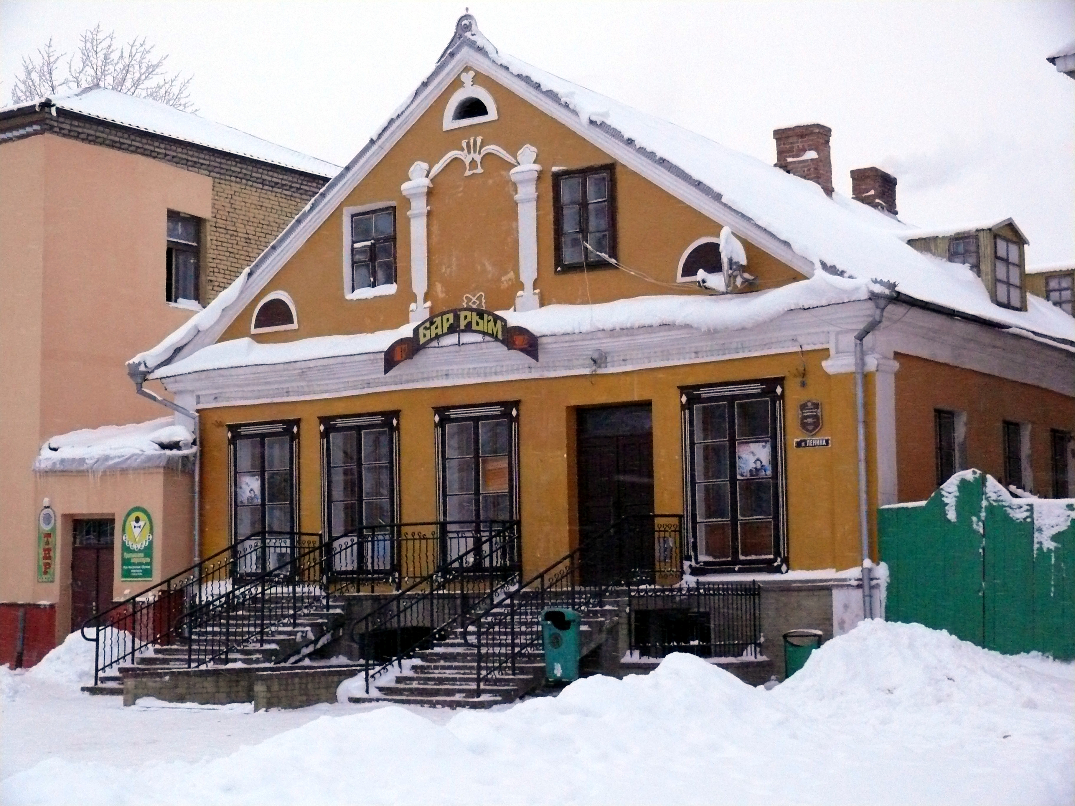 Marketplace in Navahrudak, Belarus